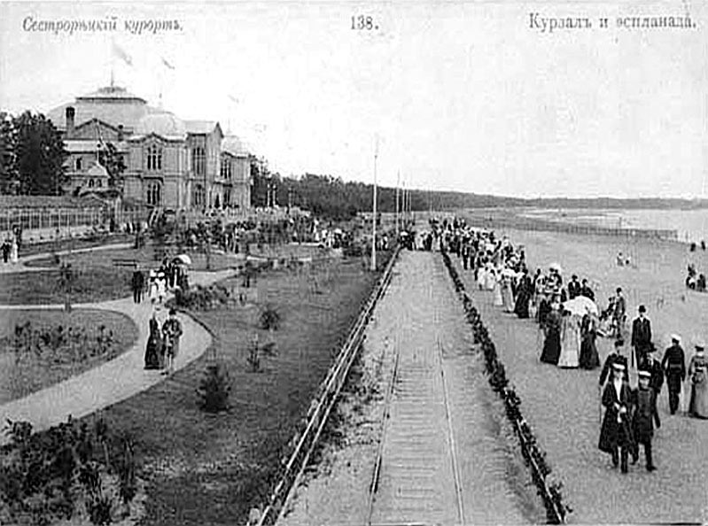 Photo of Sestroretsk kurort in early 20th century